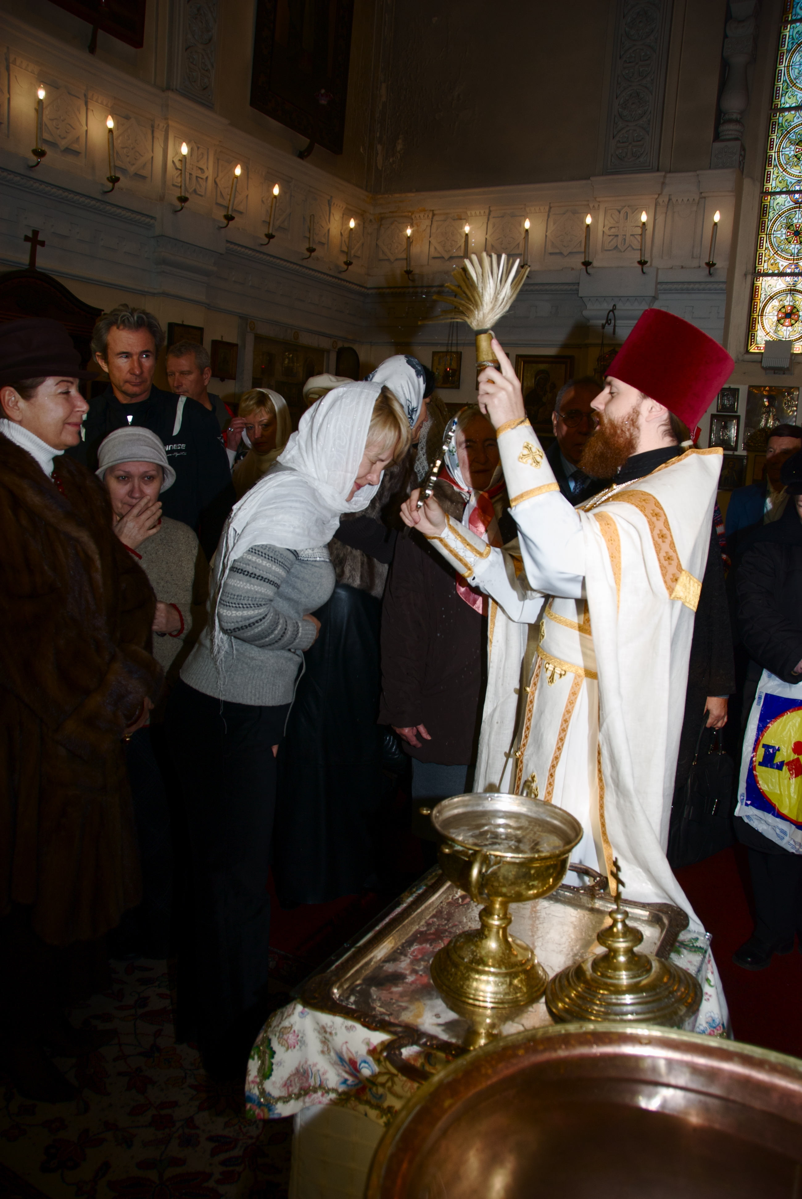 Orthodox in French Riviera